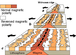 A theoretical model of the formation of magnetic striping. New oceanic crust forming continuously at the crest of the mid-ocean ridge cools and becomes increasingly older as it moves away from the ridge crest with seafloor spreading: a. the spreading ridge about 5 million years ago. b. about 2 to 3 million years ago. c. present-day. /!\ caution: the colours used on this picture may suggest that great amounts of magma are coming from beneath the lithosphere. That is not the case: only a small amount of magma is produced (red dots below the ridge crest). The orange part is Asthenosphere.